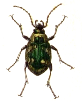 Omophron limbatum, from Calwer's Käferbuch, Table 1, Picture 7. Taxonomy was updated to 2008, using mostly the sites Fauna Europaea and BioLib. Please contact Sarefo if the determination is wrong!